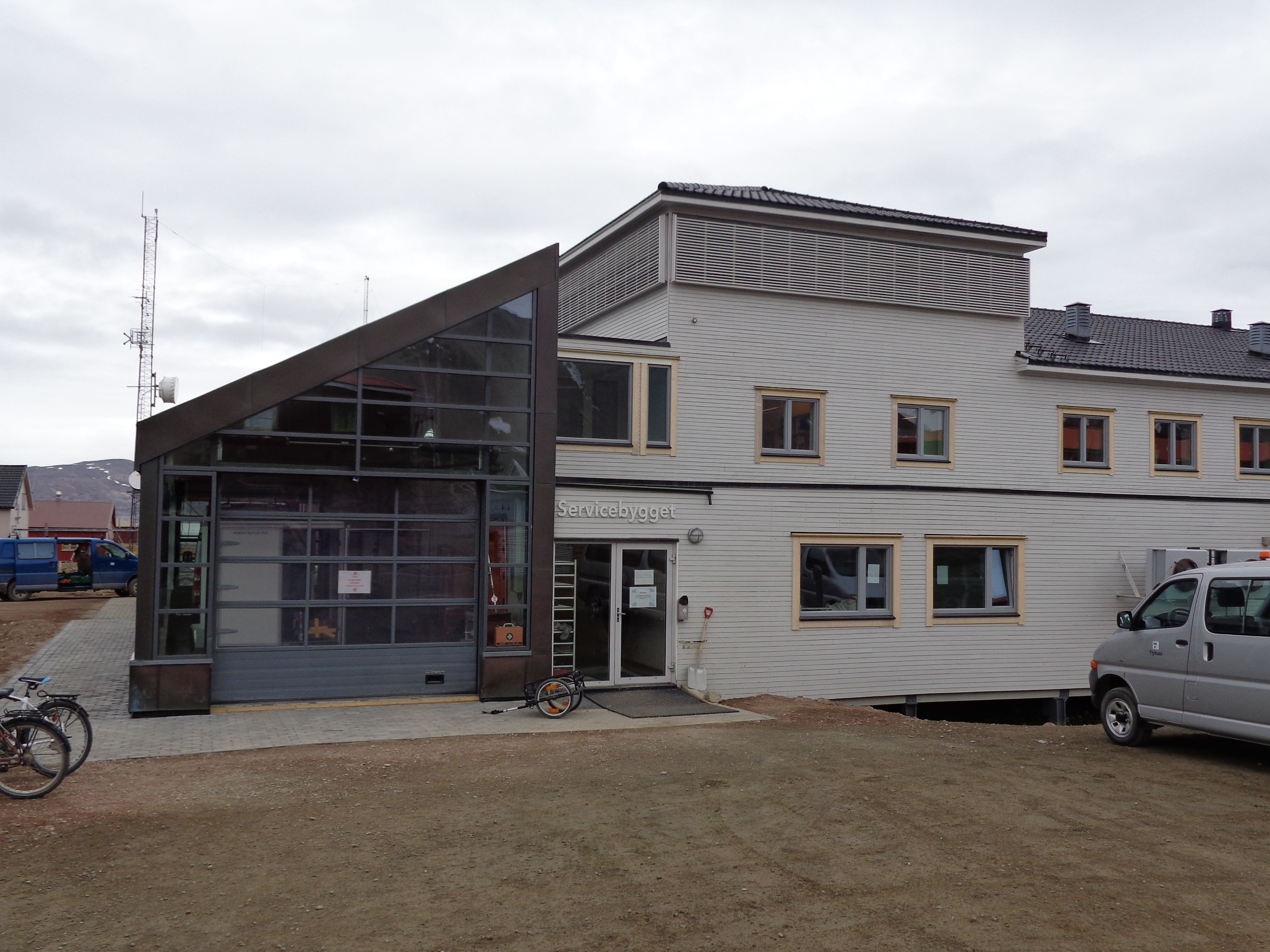 Sverdrupstasjonen in Ny-Ålesund, Svalbard